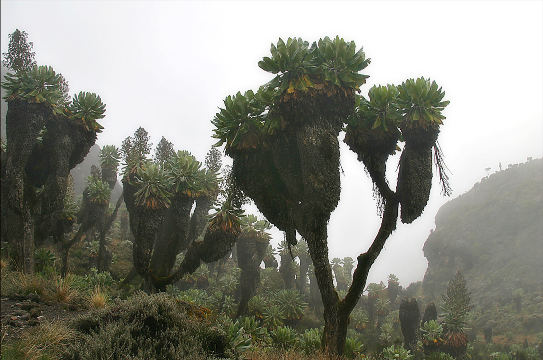 the barranco wall on kilimanjaro Senecio kilimanjari